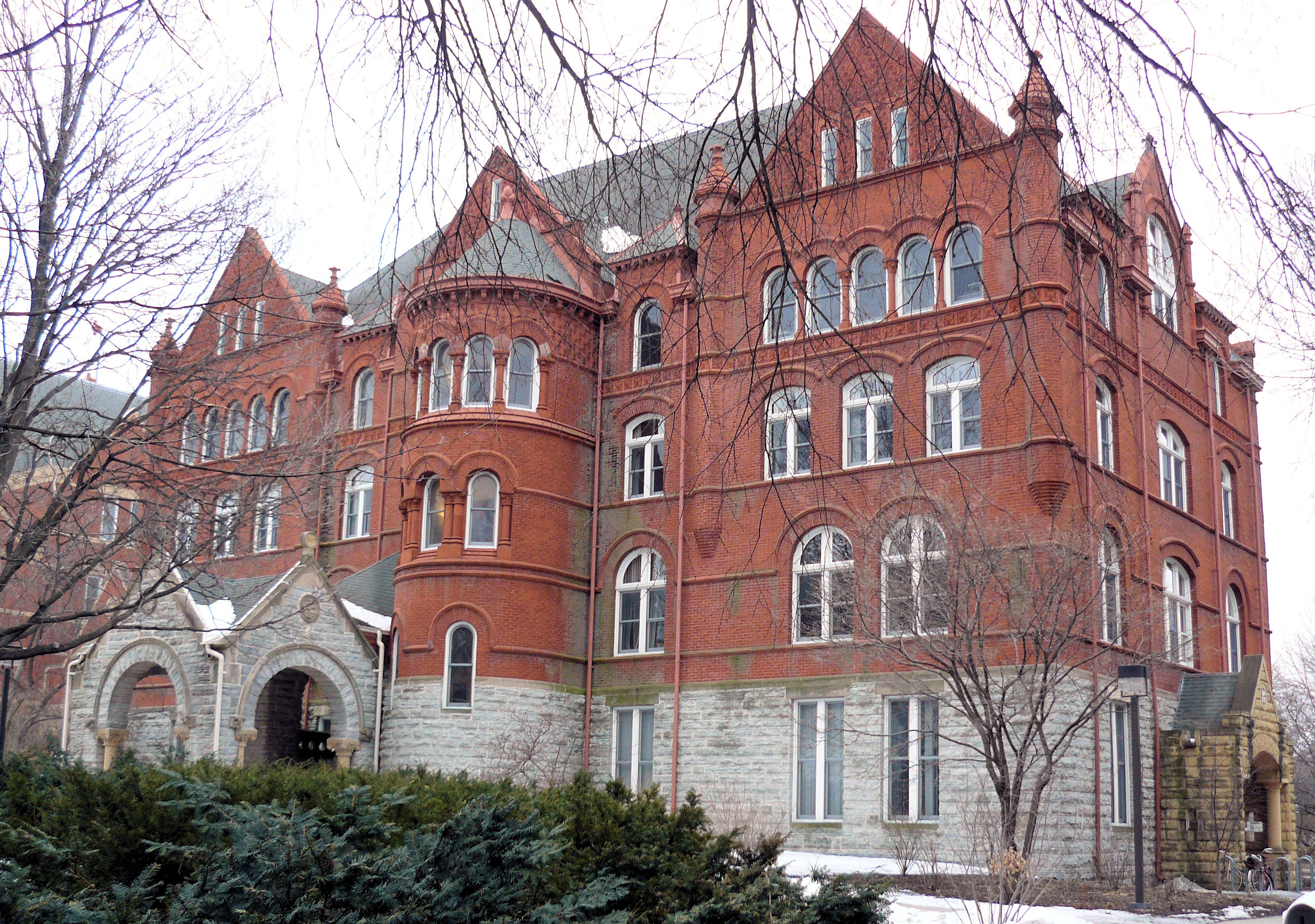 Old Main, Macalester College, 1600 Grand Avenue, Saint Paul